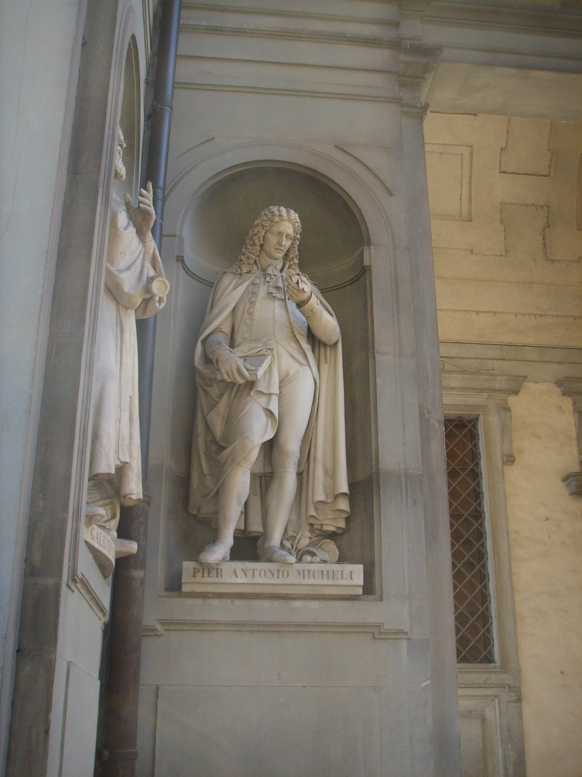 Statues in the Uffizi outside Gallery Famous florentine. See title description